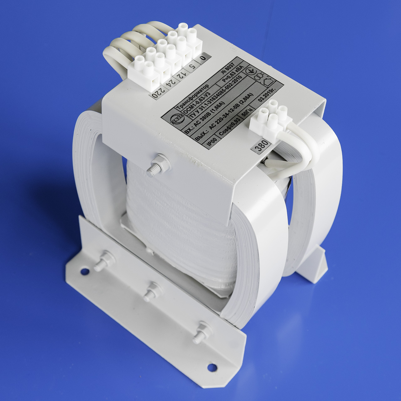 Dry-type transformer OSM1-0.63 380/220-24-12-5